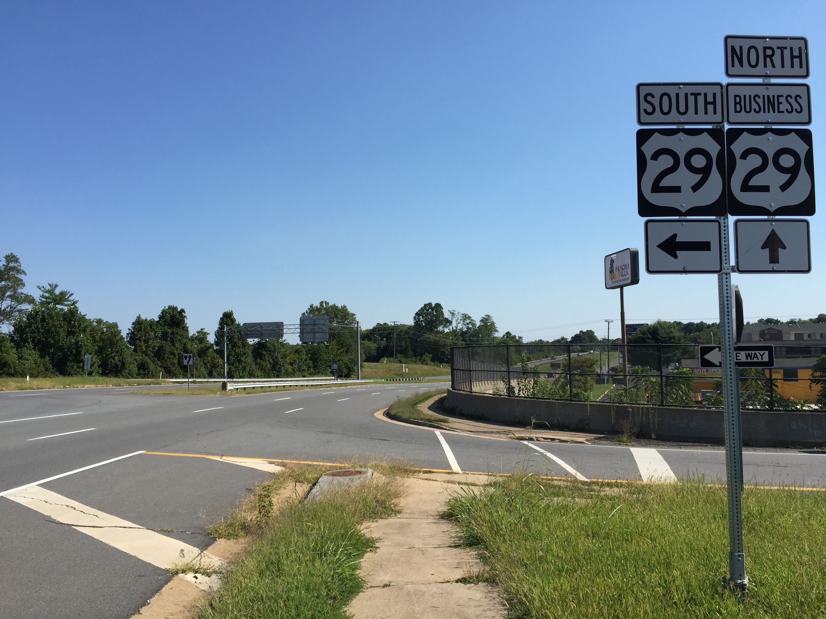 View north along U.S. Route 29 Business (Madison Road) at U.S. Route 29 (James Monroe Highway) just souhtwest of Culpeper in Culpeper County, Virginia